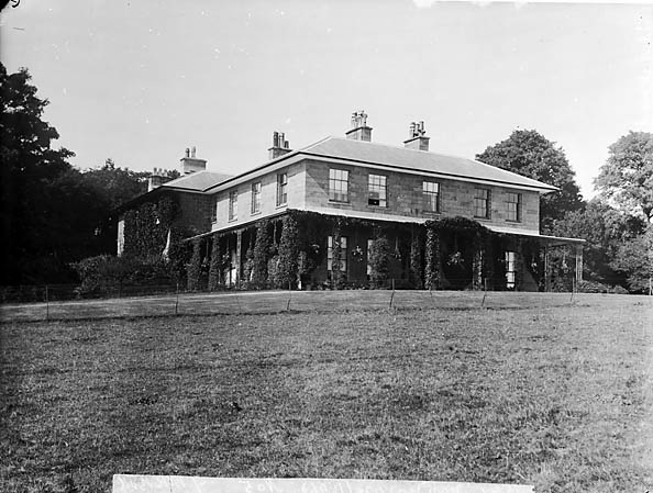 1 negative : glass, dry plate, b&w ; 16.5 x 21.5 cm.